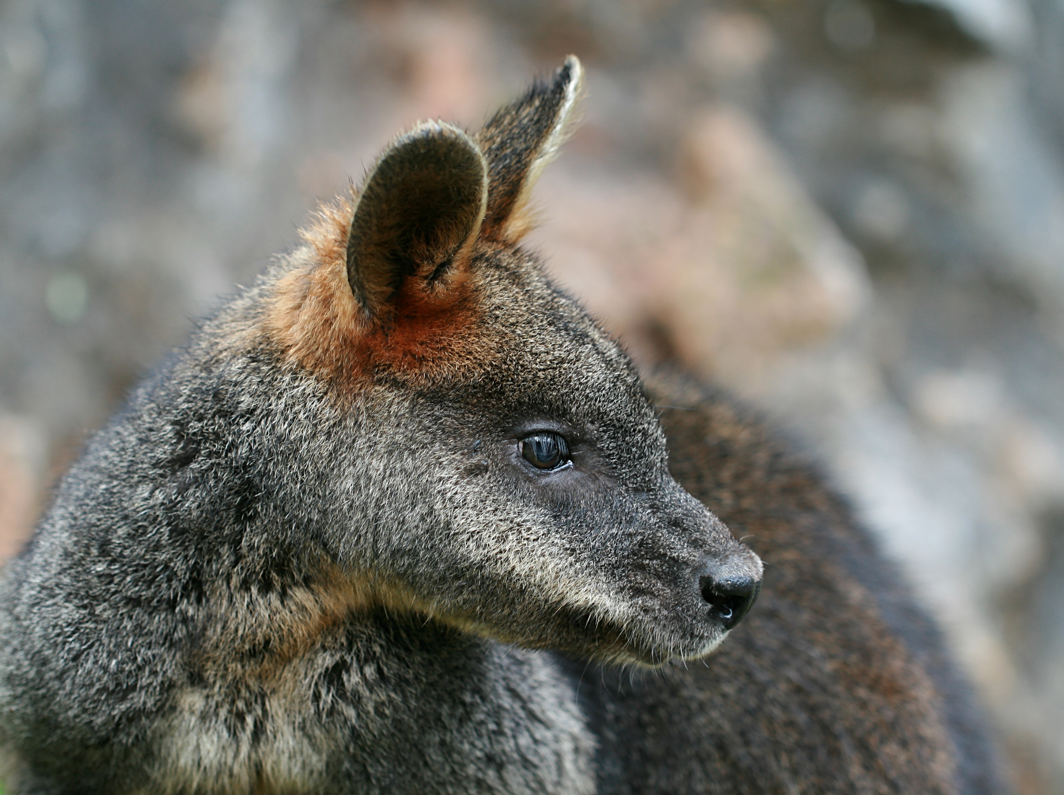 Portrait of a Swamp Wallaby (Wallabia bicolor) at Jenolan Caves.